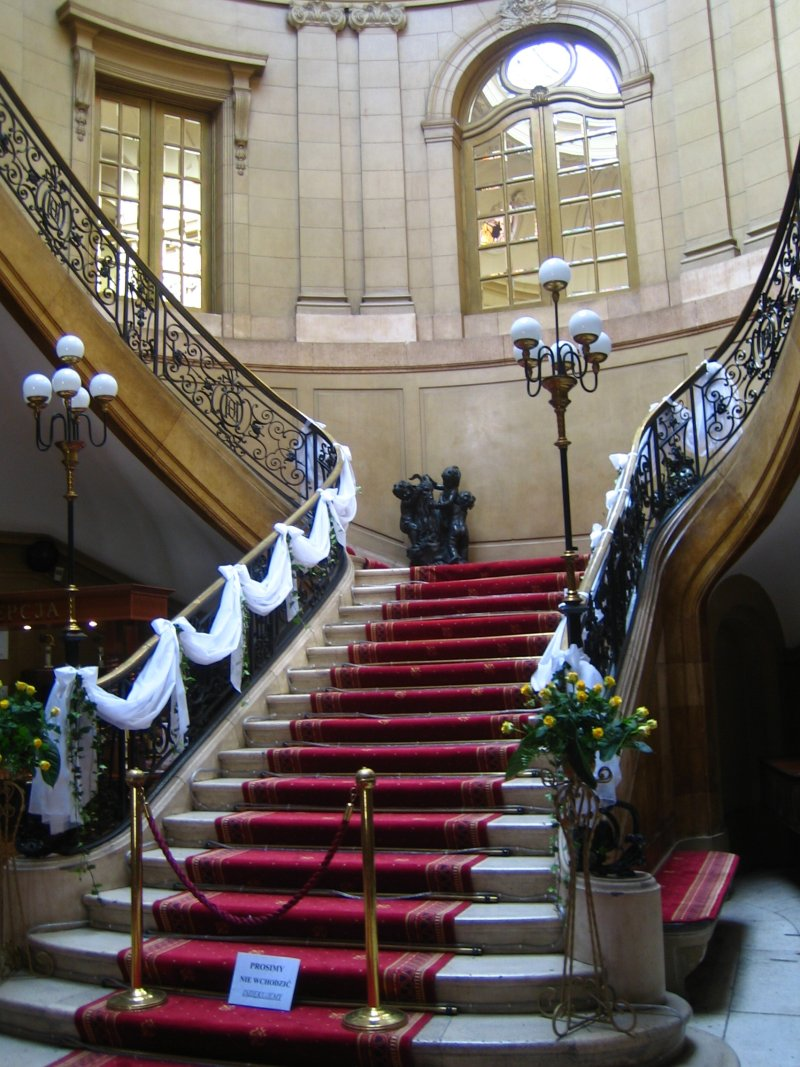 Interior of Palace in Swierklaniec Garden